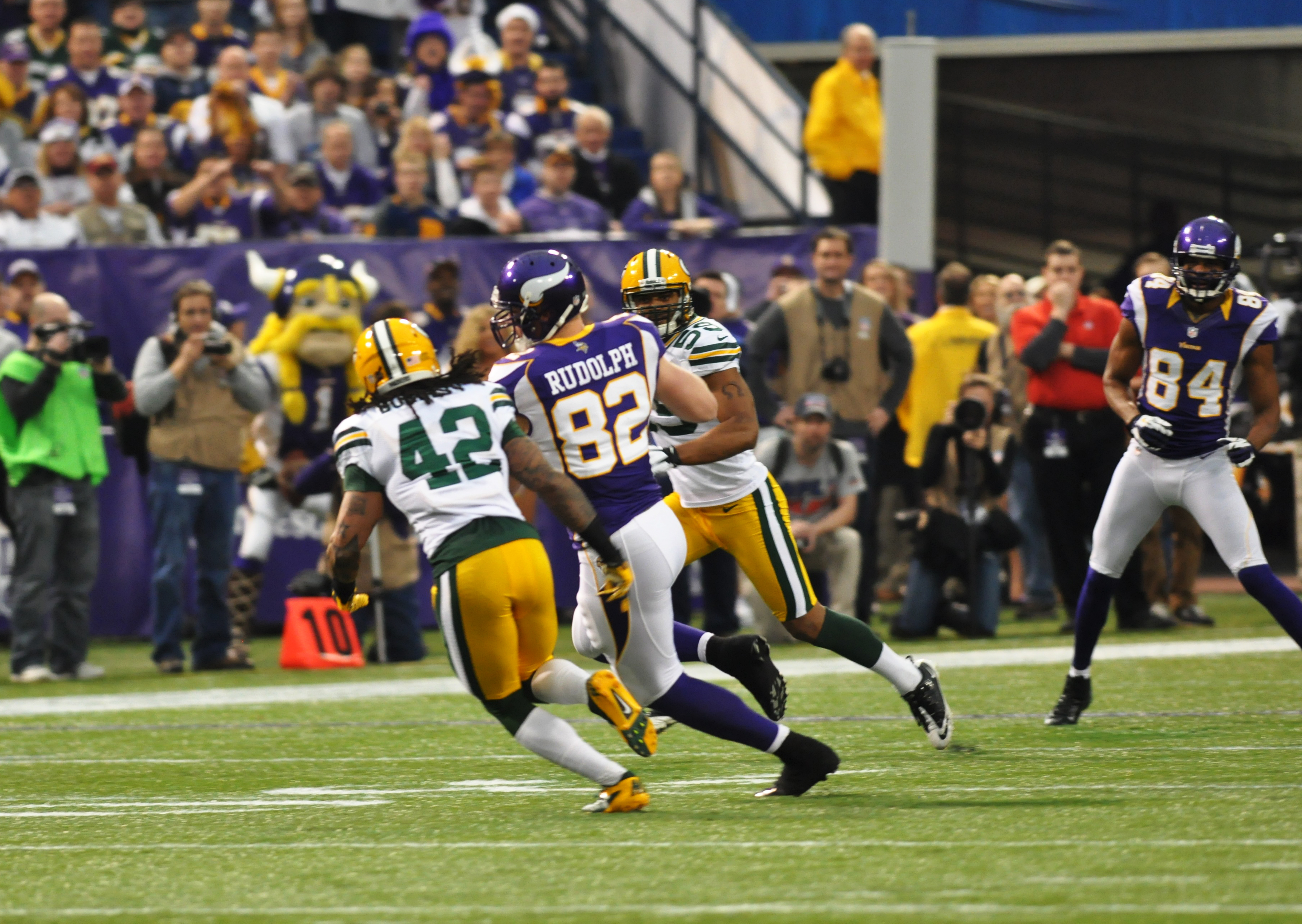 Minnesota Vikings tight end Kyle Rudolph runs the ball against two Green Bay Packers defenders, including #59 Brad Jones. Watching is Vikings wide receiver #84 Michael Jenkins.